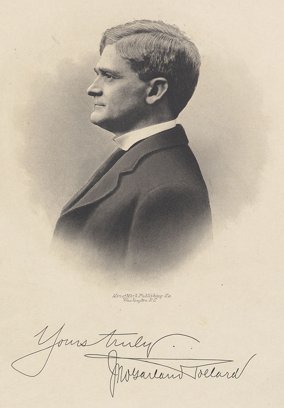 John Garland Pollard (1871-1937)